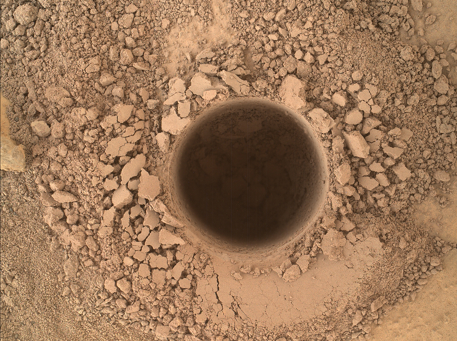 This image from the Mars Hand Lens Imager (MAHLI) camera on NASA's Curiosity Mars rover shows the first sample-collection hole drilled in Mount Sharp, the layered mountain that is the science destination of the rover's extended mission. The hole is 0.63 inch (1.6 centimeters) in diameter and about 2.6 inches (6.7 centimeters) deep, at a target called "Confidence Hills" on the "Pahrump Hills" outcrop at the base of the mountain. This is a merged-focus image product combining information from multiple images that MAHLI took from a position 2 inches (5 centimeters) away from the target. The images were taken on Sept. 24, 2014, during the 759th Martian day, or sol, of Curiosity's work on Mars. MAHLI was built by Malin Space Science Systems, San Diego. NASA's Jet Propulsion Laboratory, a division of the California Institute of Technology in Pasadena, manages the Mars Science Laboratory Project for the NASA Science Mission Directorate, Washington. JPL designed and built the project's Curiosity rover. More information about Curiosity is online at and